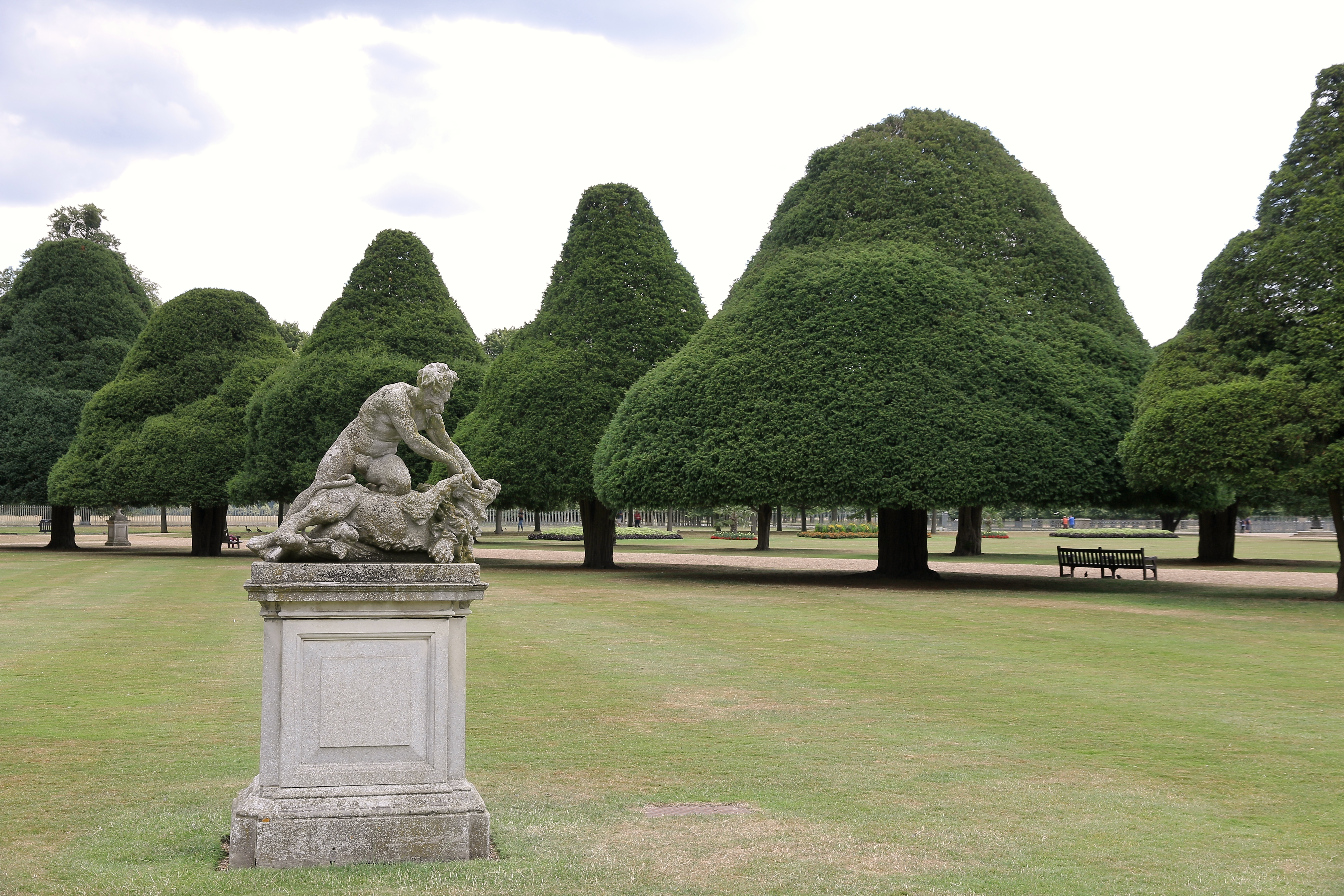 Hampton Court Palace Garden